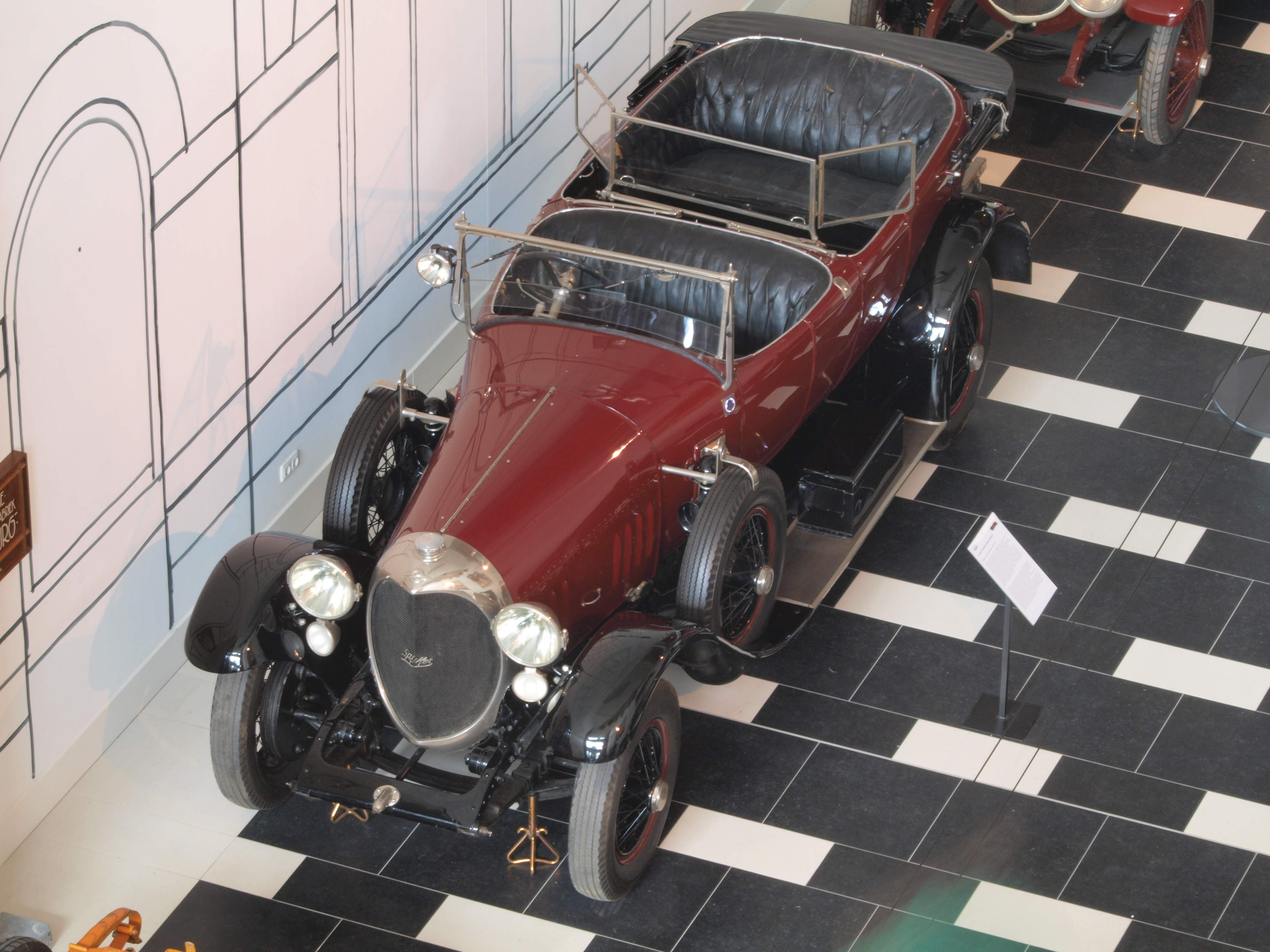 Photographed at the Louwman museum / Louwman Collection, The Netherlands.